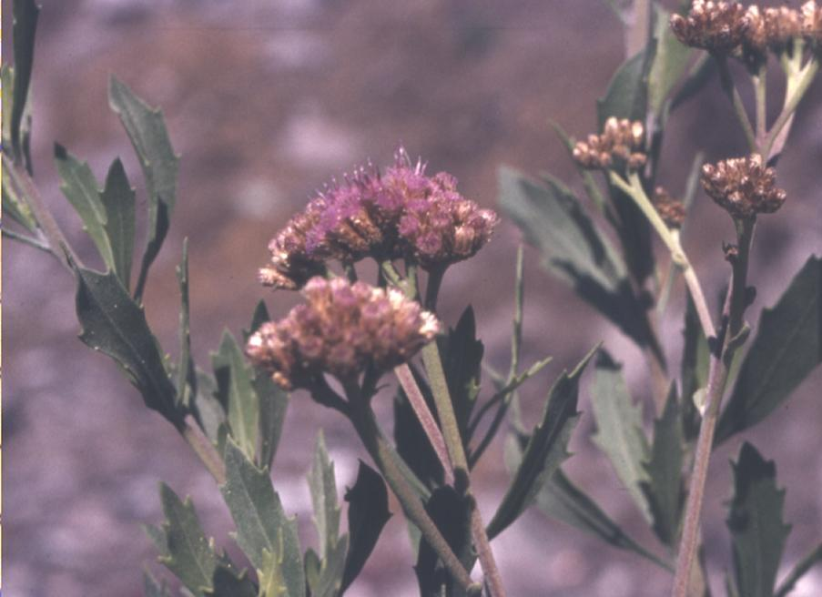 Tessaria absinthioides, common riparian weed central Chile